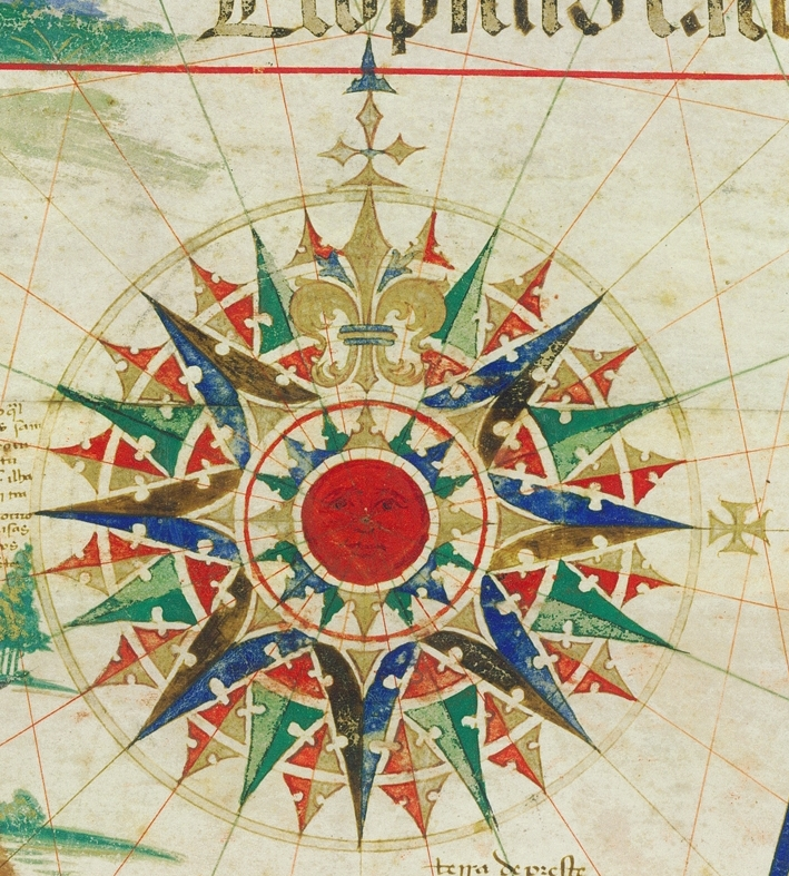 The main compass rose of the Cantino planisphere, 1502